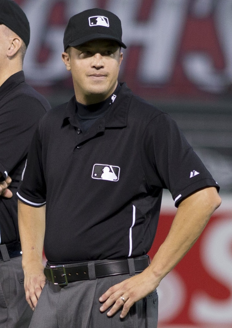 MLB umpire Cory Blaser – Boston Red Sox at Baltimore Orioles June 13, 2013